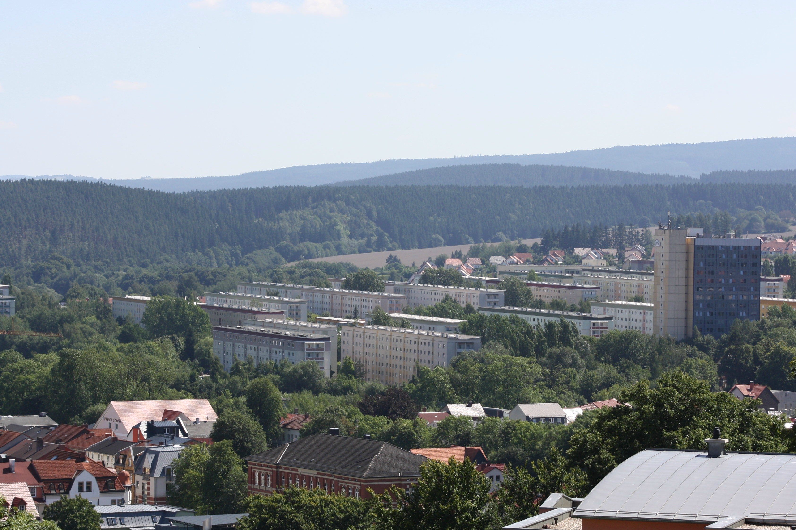 Germany, Thuringia, Ilmenau, quarter "Am Stollen", view from street "Sturmheide" to the quarter and the tower building (Stollenhochhaus)